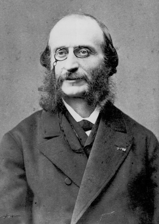 Jaques Offenbach